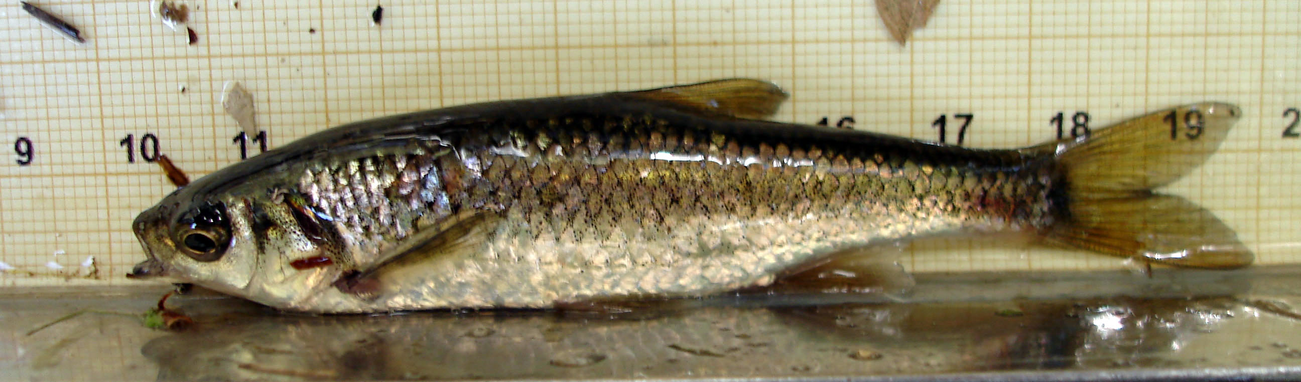 Squalius alburnoides in river Tiétar. La Adrada (Ávila, Spain)